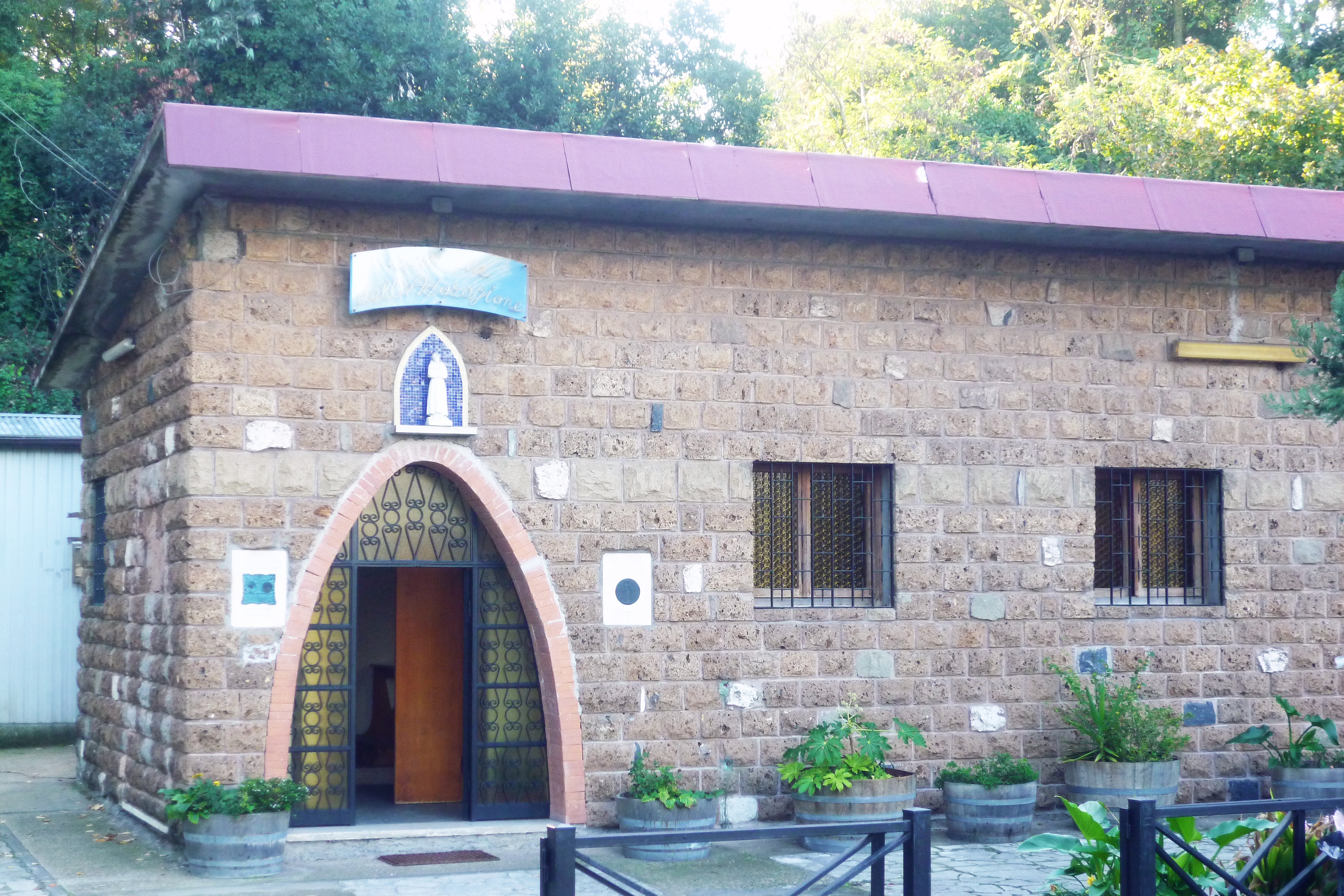 Sanctuary of "Madonna della Rivelazione" - in Tre Fontane Abbey, Rome